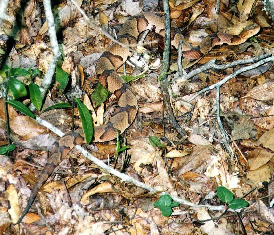 Closeup version of Image:CopperheadInLeaves.JPG. Southern copperhead (Agkistrodon contortrix contortrix) at southern limit of range, in LIberty Co., Florida, demonstrating camouflage. abt 1995